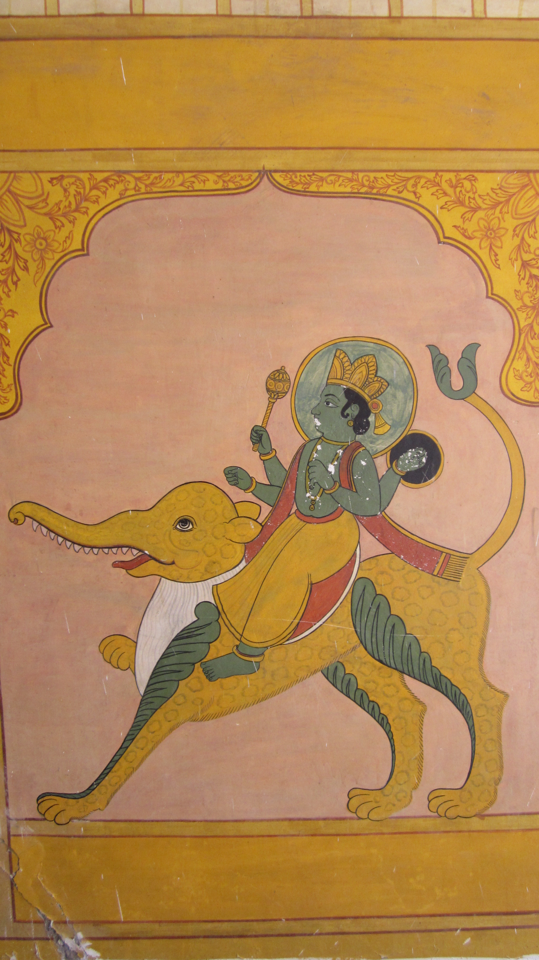 A mural of planet Budha, from Jawahar kala kendra, Jaipur.